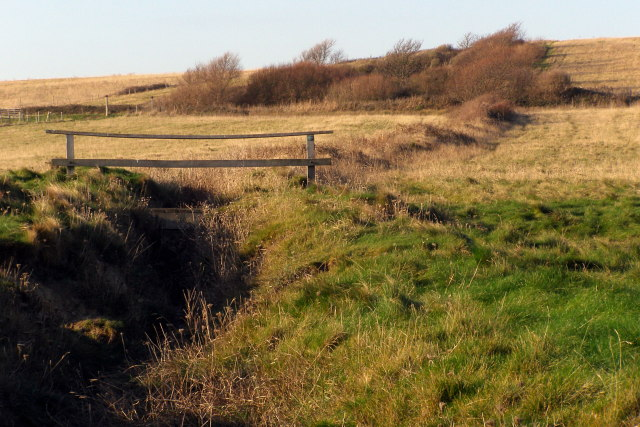 The Culverwell stream The wooden footbridge on the left is where the coastal path crosses the Culverwell stream, which rises at a spring in the bushes on the far side of Portland Bill Road, then flows around 400 metres down the slope to the cliff waterfall at Waterfall Cave. This stream is supposed to be the only open one left on the Isle of Portland, the others have been diverted into culverts.